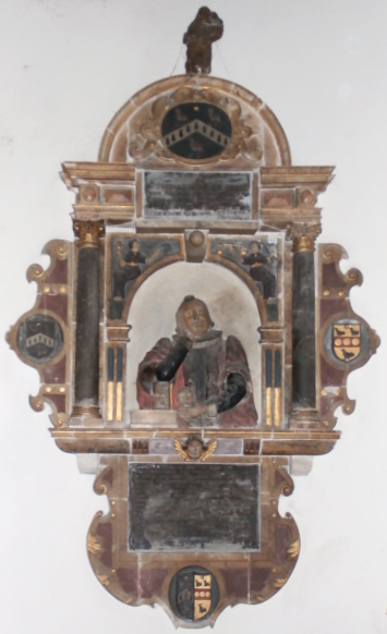 Mural monument in St Peter's Church, Barnstaple, Devon, to Thomas Horwood (1600-1658) of Barnstaple, twice Mayor of Barnstaple, in 1640 and 1653. He founded an almshouse in Church Lane, Barnstaple. Church very dark, photography difficult, hence poor quality image.